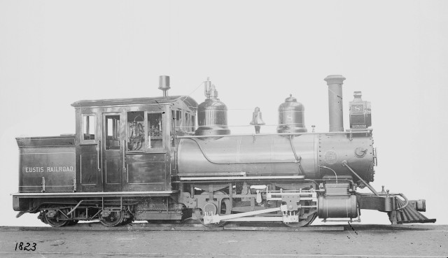 The three 'Eustis engines' were built by Baldwin in 1903 and 1904. They were originally used by the 2-foot gauge Eustis railroad of Maine, and later absorbed into the 2-foot gauge Sandy River & Rangeley Lakes railroad. They , they were originally Eustis Railroad Nos. 7, 8 and 9, they later became SR&RL Nos. 20, 21 and 22. They are the raw model for the model railroad locomotive 'Wild West Forney' by LGB.